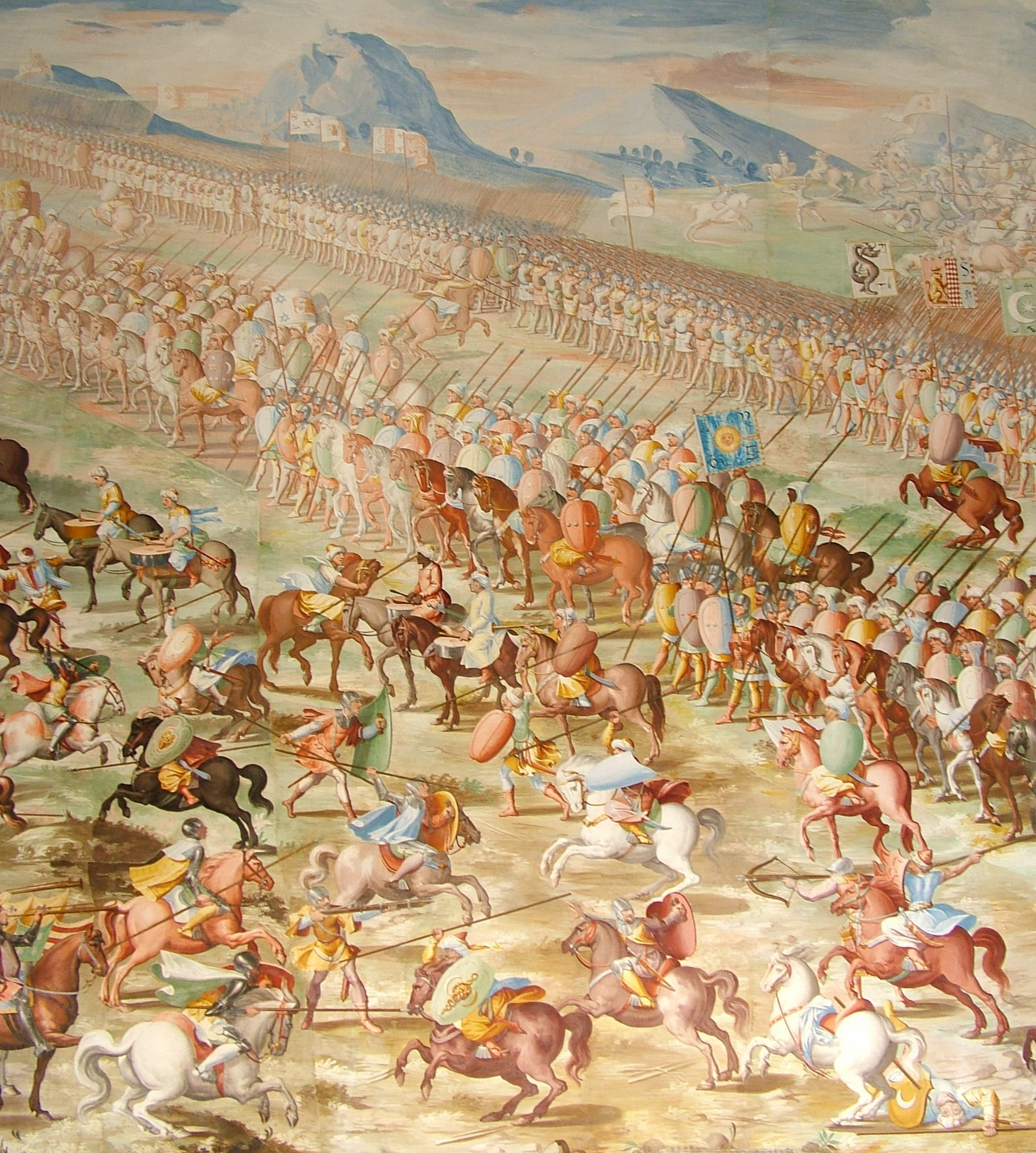 Forces of Muhammed IX, Nasrid Sultan of Granada, at the Battle of Higueruela 1431, as depicted in a series of fresco paintings by Fabrizio Castello, Orazio Cambiaso and Lazzaro Tavarone in the Gallery of Battles at the Royal Monastery of San Lorenzo de El Escorial, Spain.